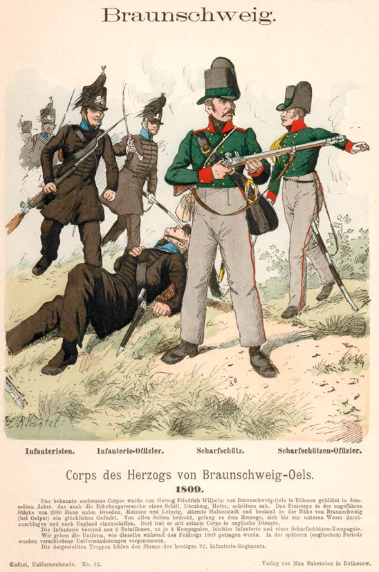 Braunschweig. Corps des Herzogs von Braunschweig-Öls. 1809